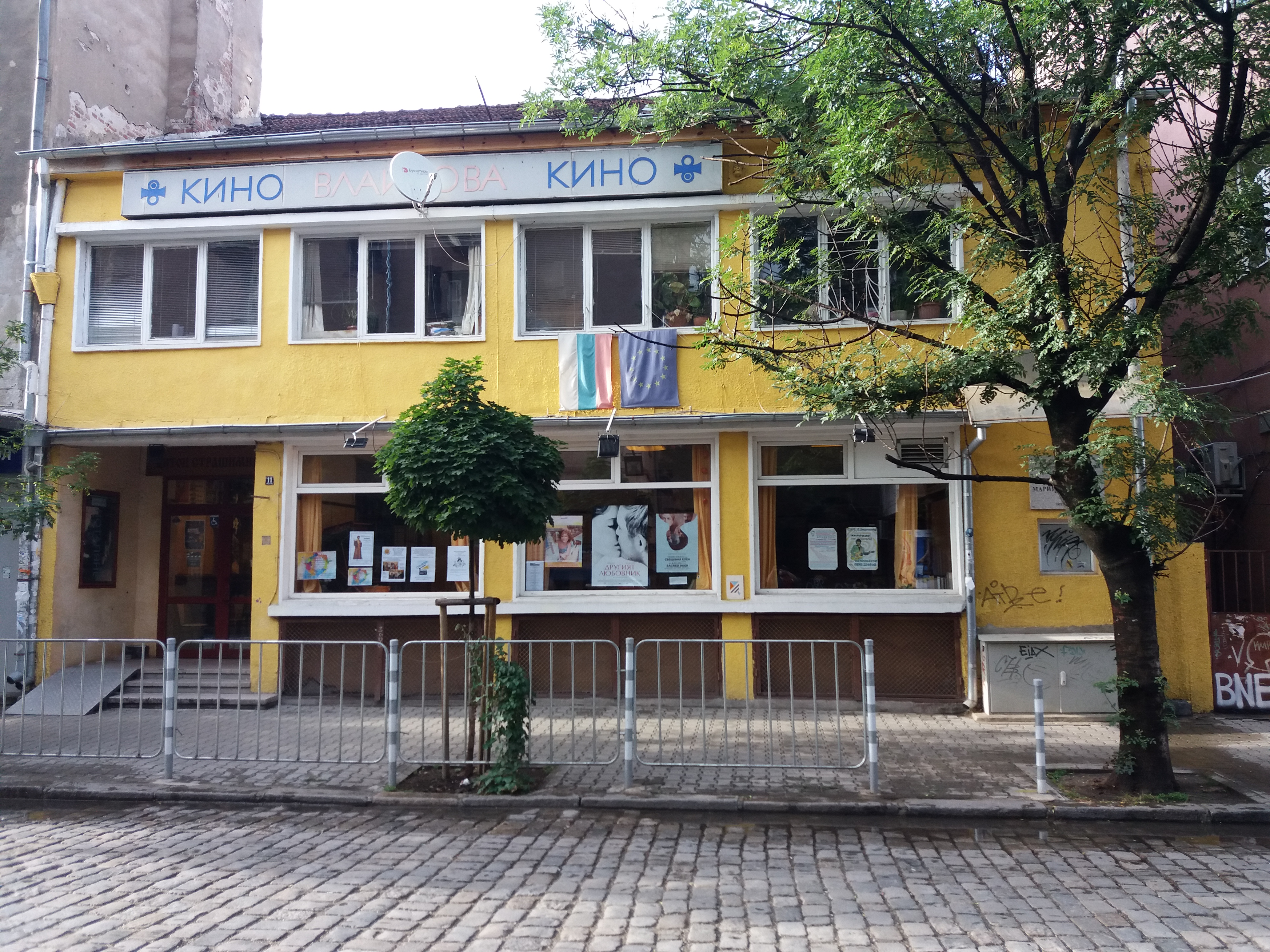 Vlaykova Cinema, Yavorov, Sofia